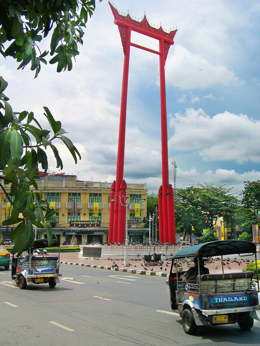 Sao Ching Cha (The Giant Swing), Phra Nakhon district, Bangkok, Thailand.